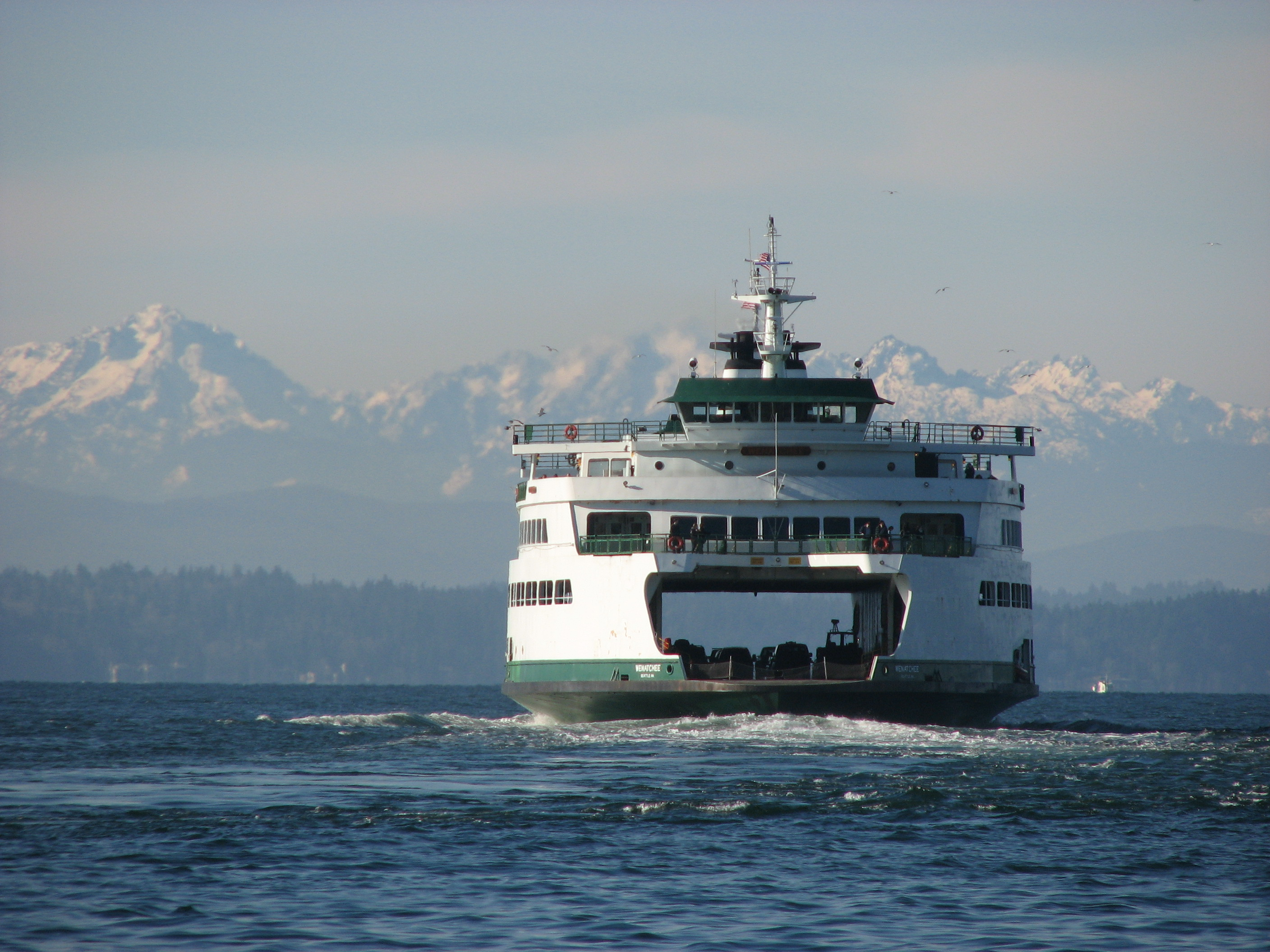 The ferry "Wenatchee" enroute to Bainbridge Island, Washington, USA.